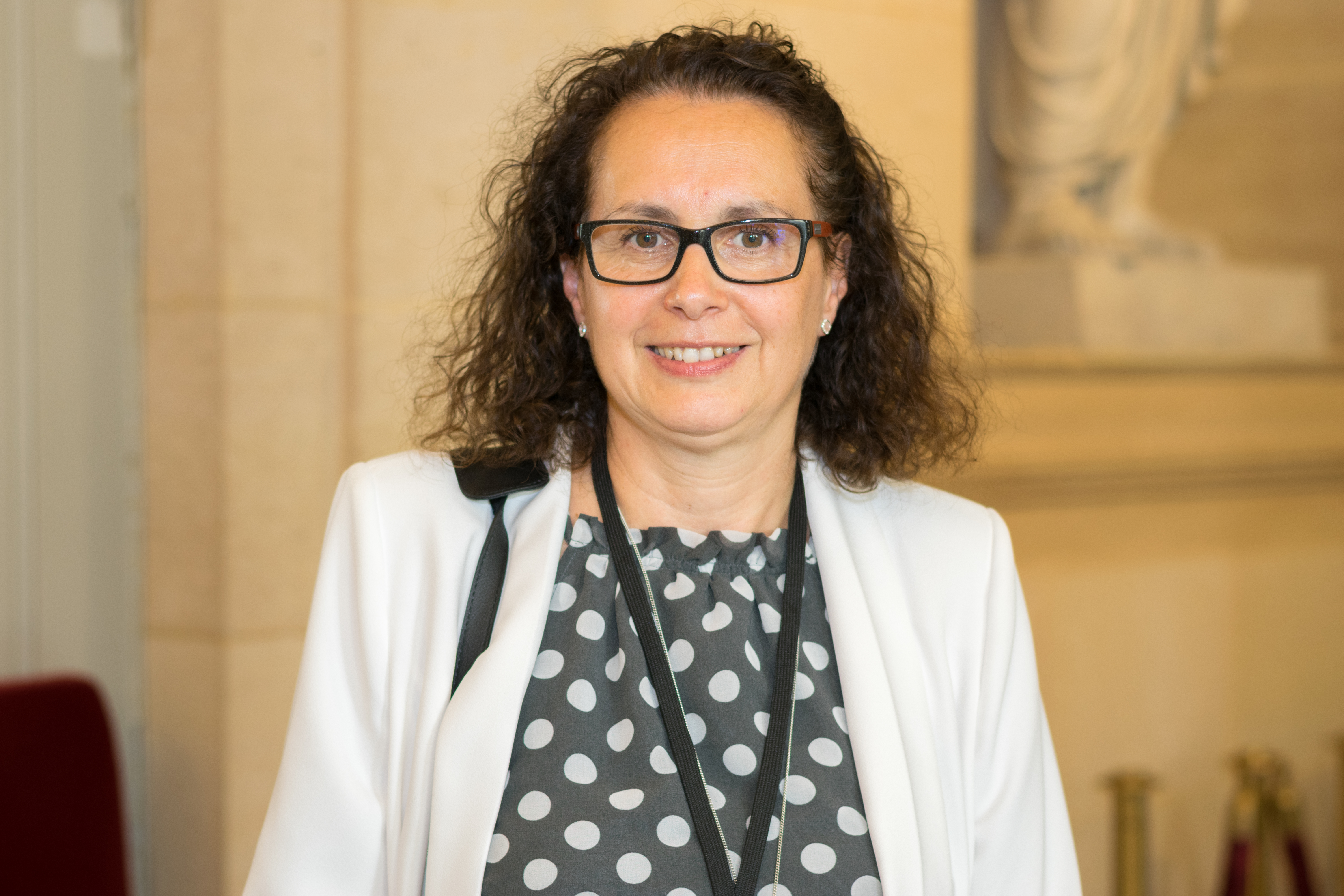 Béatrice Piron in the salle des Quatres Colonnes of the Palais Bourbon (Paris, France).